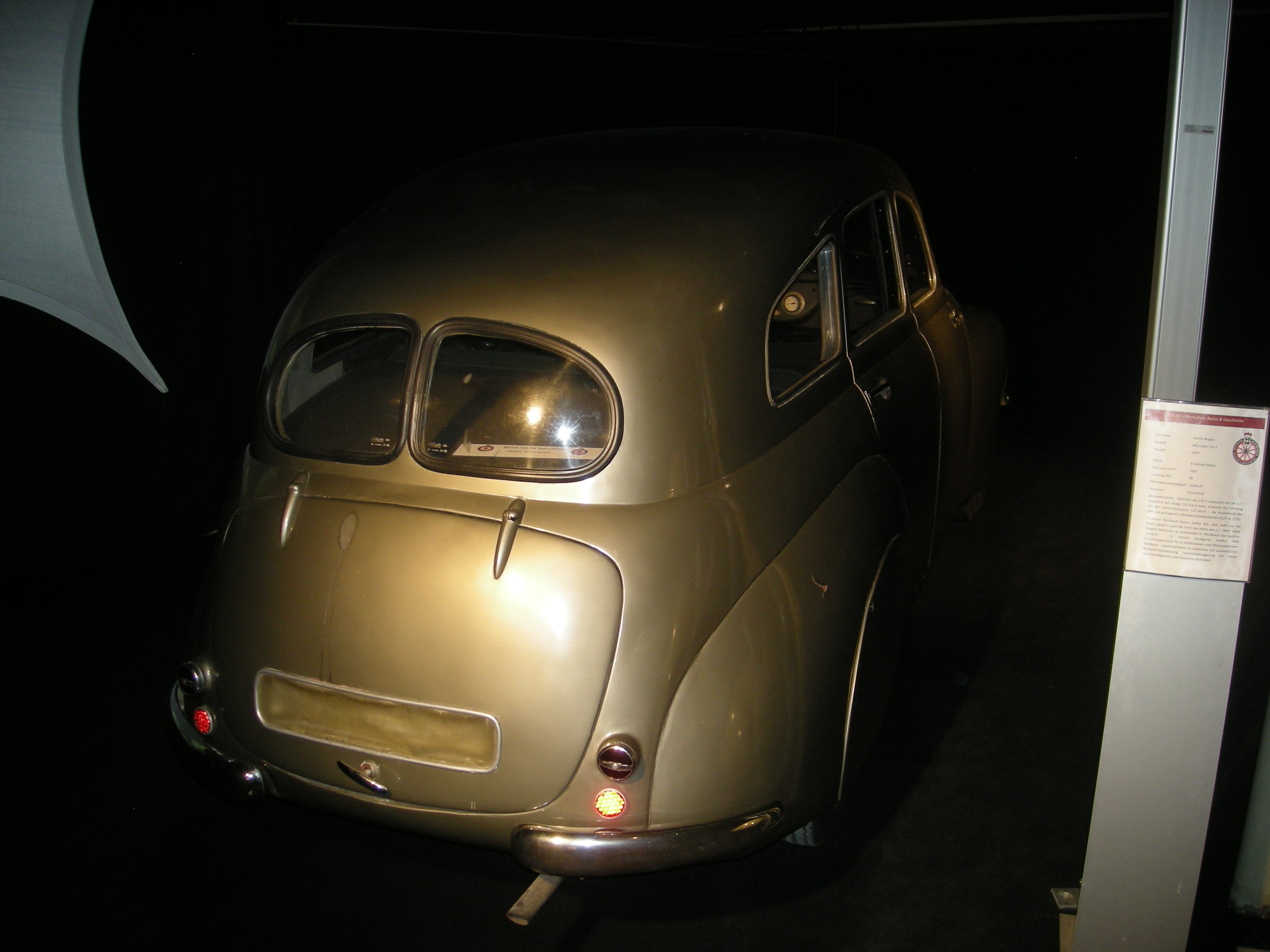 A 1939 Kamm Wagen Mercedes 170 V inside the Deutsches Automuseum in Langenburg, Baden-Württemberg (Germany).